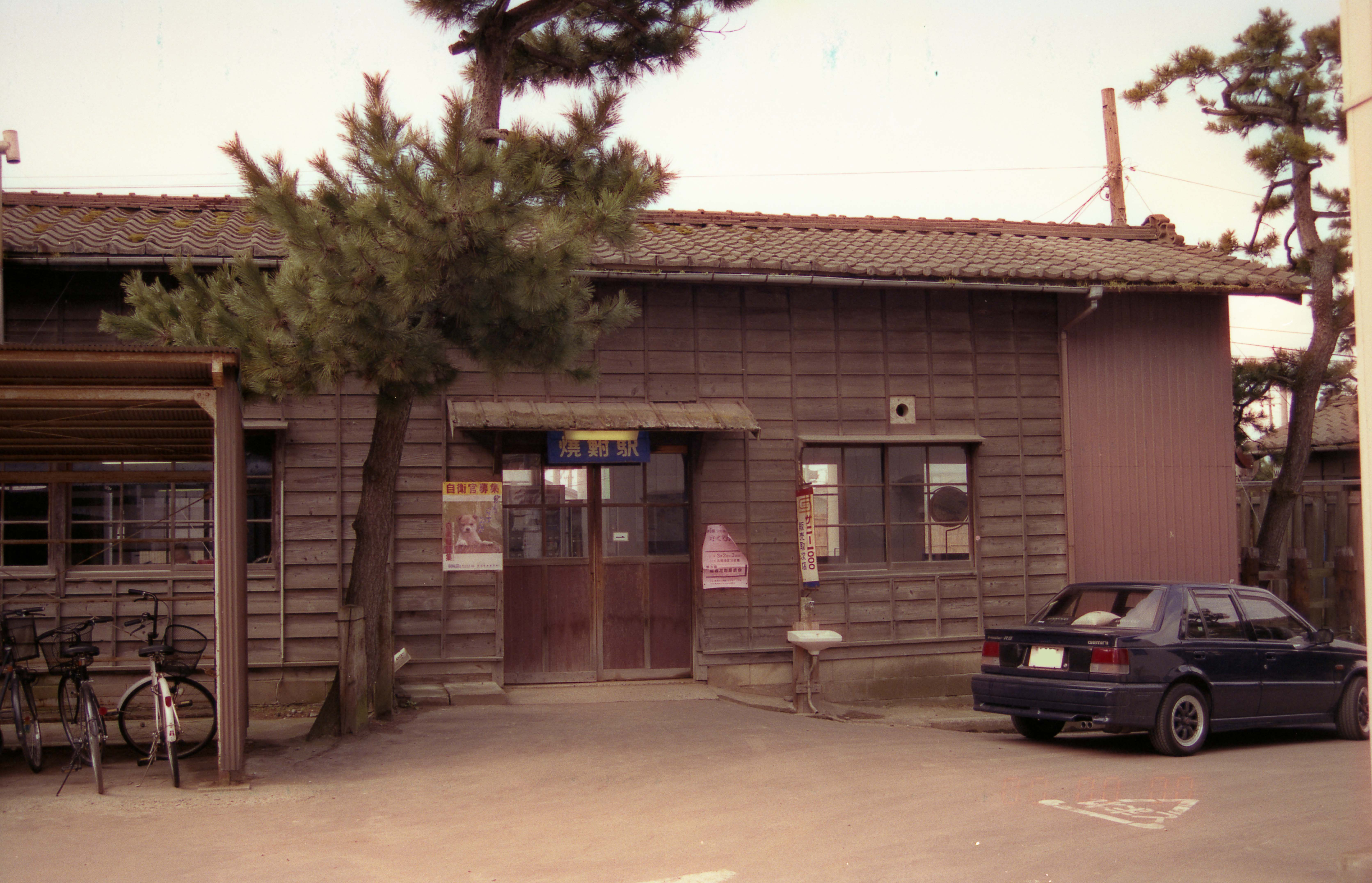 The building of Yakifuna Station, Niigata Kotsu Railway (before it was abolished)